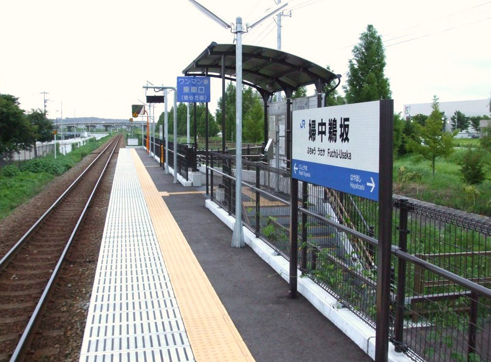 View of the platform looking toward Nishi-Toyama at Fuchū-Usaka Station on the Takayama Main Line in Toyama, Toyama, Japan